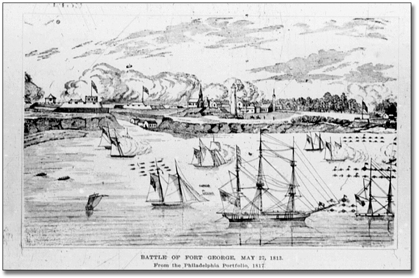 Depiction of the Battle of Fort George (27 May 1813). The depiction was first published by the Philadelphia Portfolio in 1817